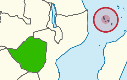 Zimbabwe in green, Comoros highlighted in red. Derived from File:Comoros on the globe (Zambia centered).svg, by TUBS (talk · contribs). Created to illustrate the two countries' relative locations with reference to the 1978 Coup of Comoros, which was led by French soldier Bob Denard with the support of the Rhodesian government (among others).